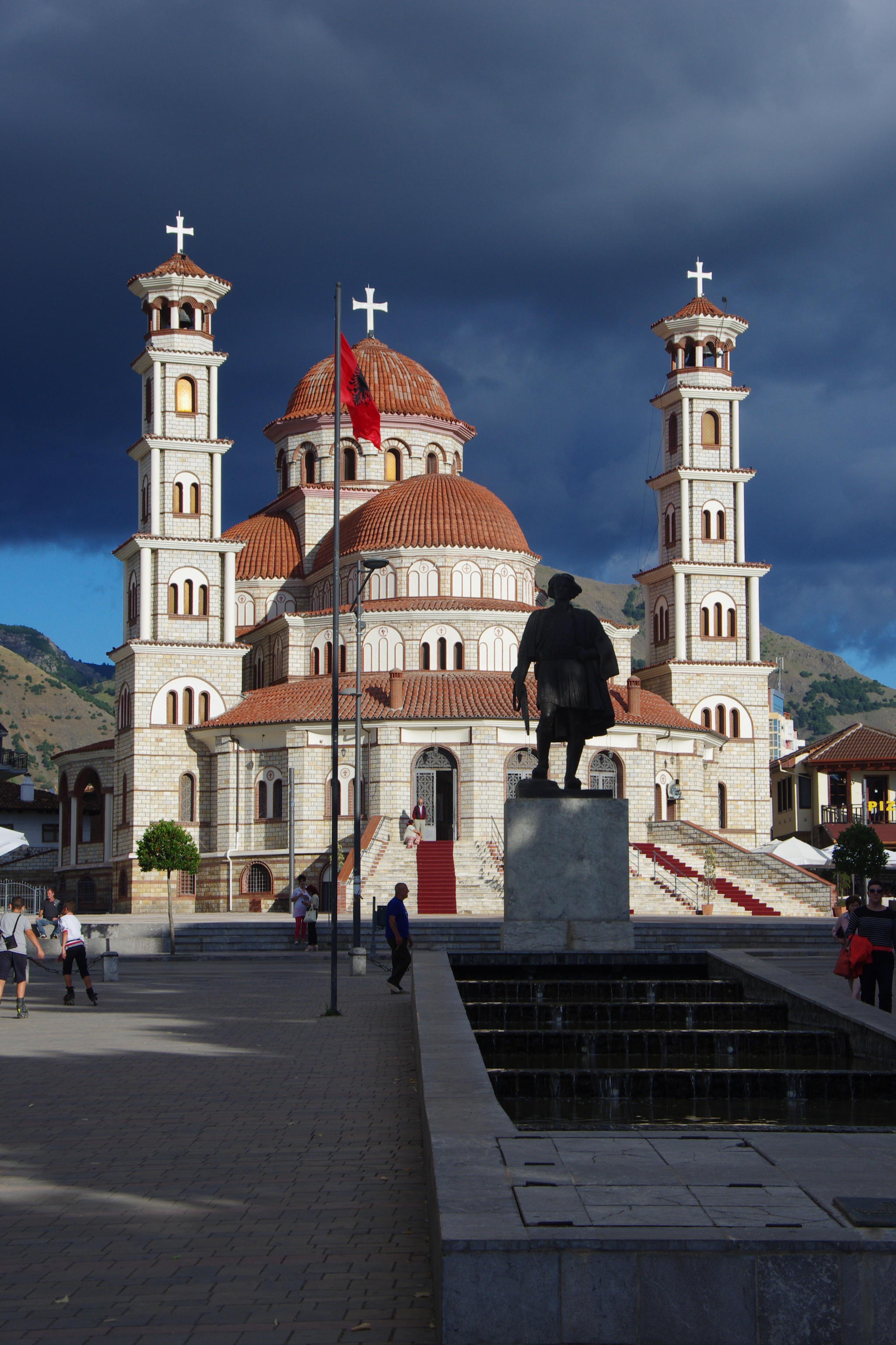 Korca